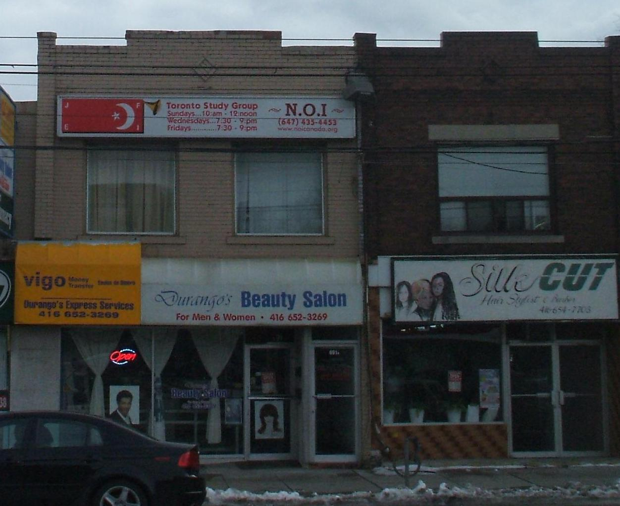 Toronto (Canada) study group of Nation of Islam - doc shot, kind of dark, but st claire west (notice the remmitance office on the far left)